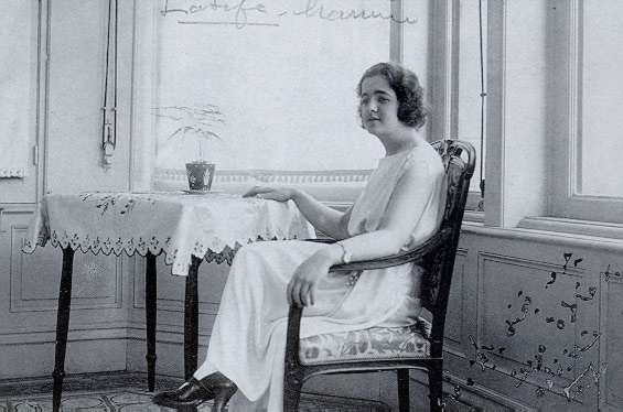 Latife Uşşaki (First Lady of Turkey),1923).